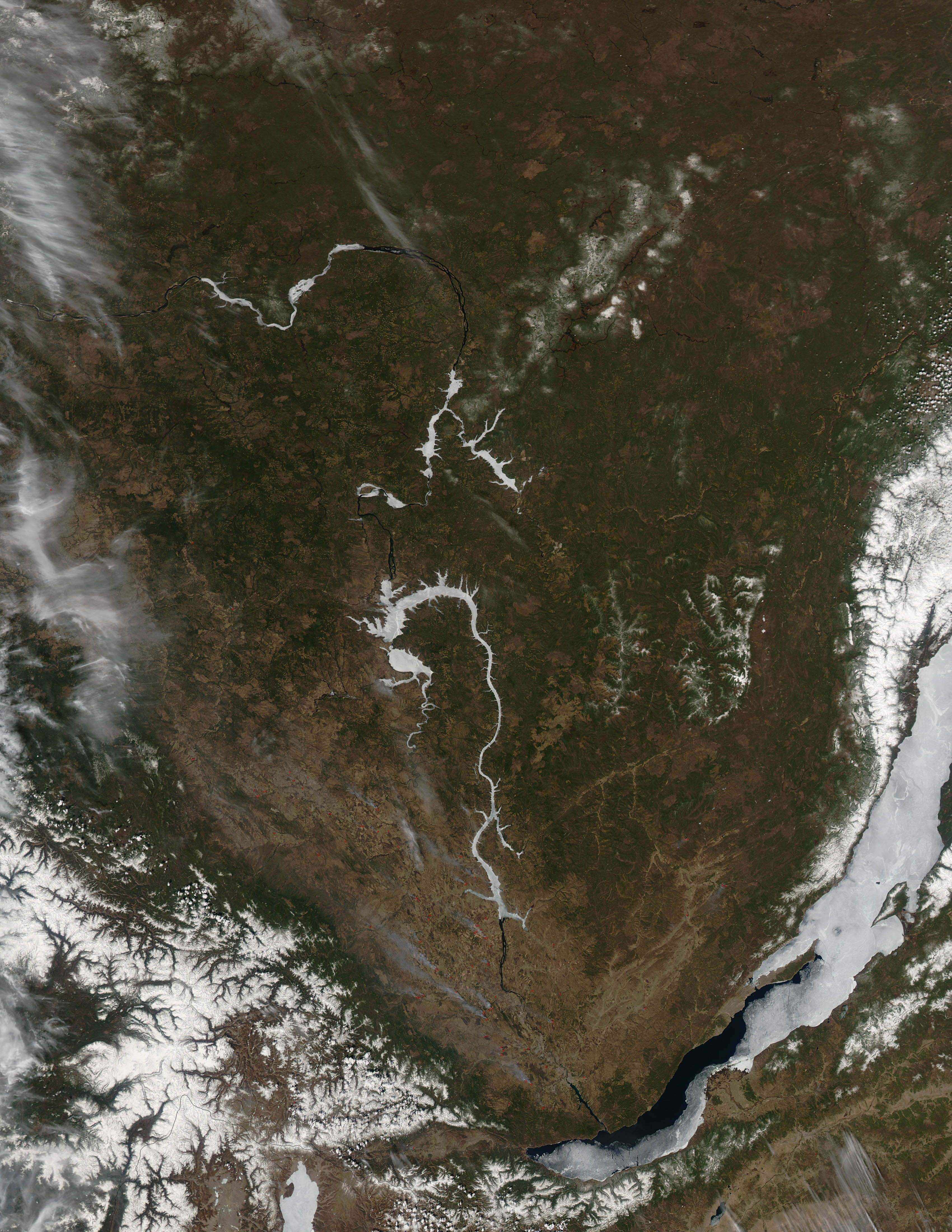 BURNING FIELDS NEAR THE ANGARA RIVER May 10, 2013